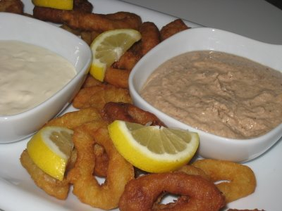 Turkish tarator and fried squid